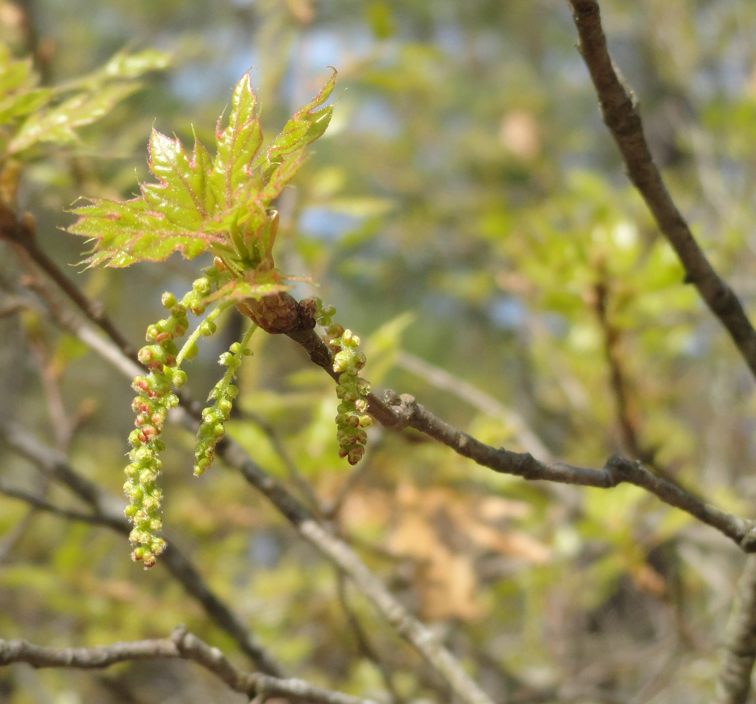 Quercus georgiana catkins in early spring, taken on the Walk Up Trail at Stone Mountain Park in Georgia, US